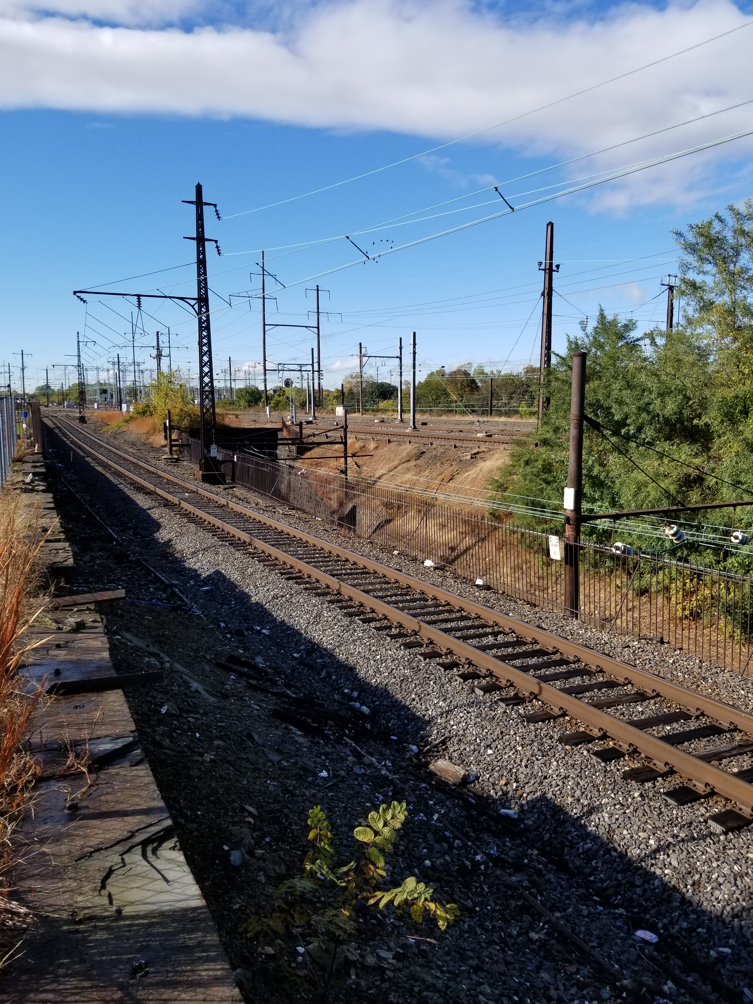 Zoo Int, October 2019